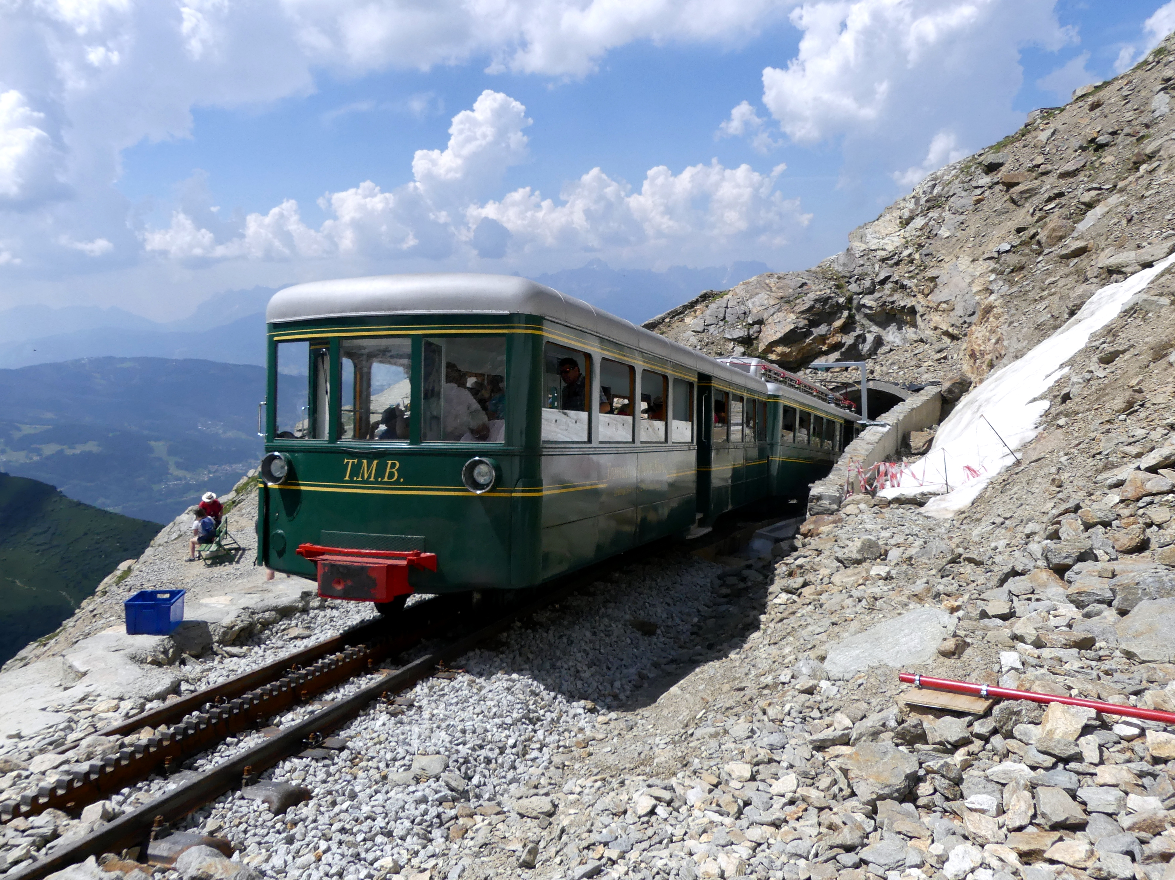 Sight of Anne green train of Tramway du Mont-Blanc (TMB) touristic rack railway at Nid d'Aigle station, highest station of France at 2,372 meters high, in Haute-Savoie.